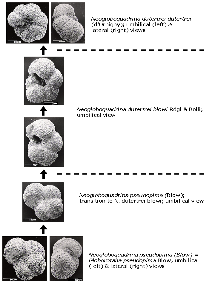 Evolutionary trend from Neogloboquadrina (= Globorotalia) pseudopima BLOW to N. dutertrei dutertrei (d'Orbigny), through N. d. blowi ROGL & BOLLI.